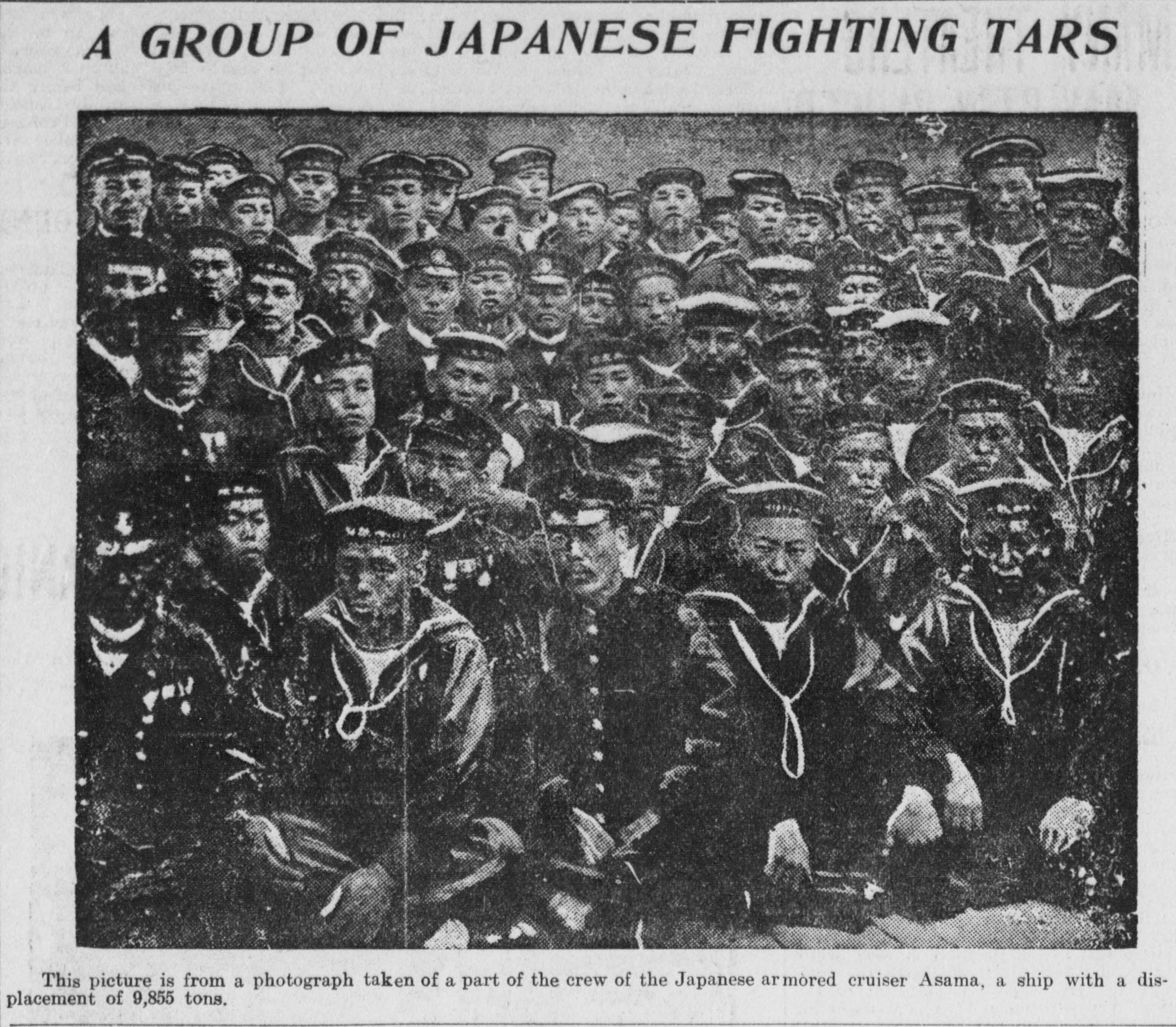 In 1904, these "fighting tars" (sailors) were part of the crew of the Japanese cruiser Asama